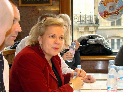 Photo de Catherine VAUTRIN